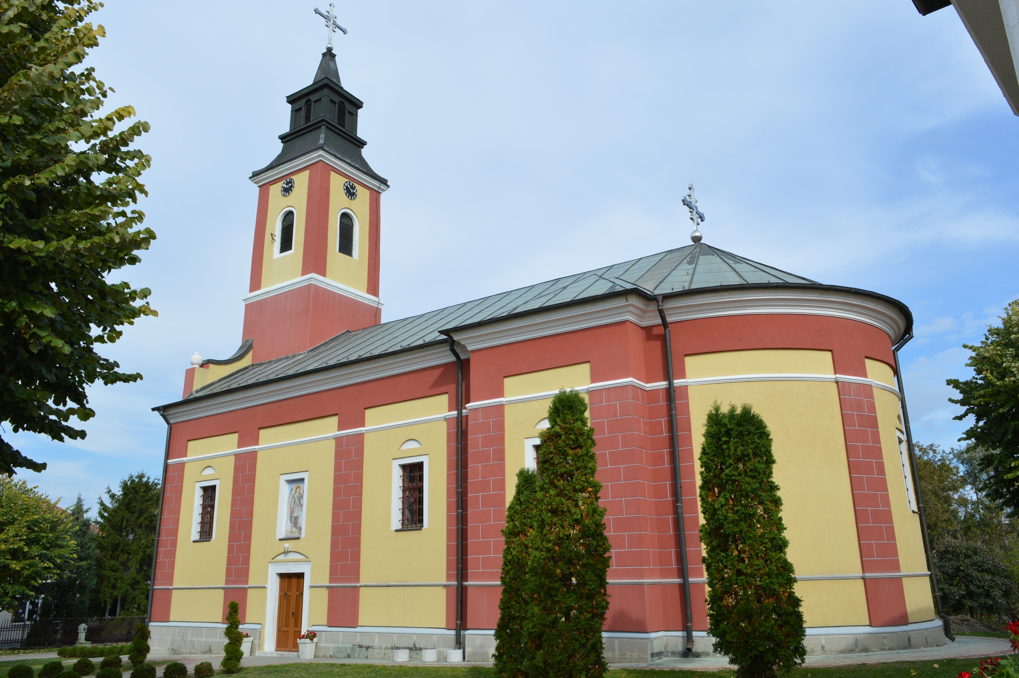 Church of Saint "Petozarnih mučenika" in Smoljinac, Malo Crnuće- general look